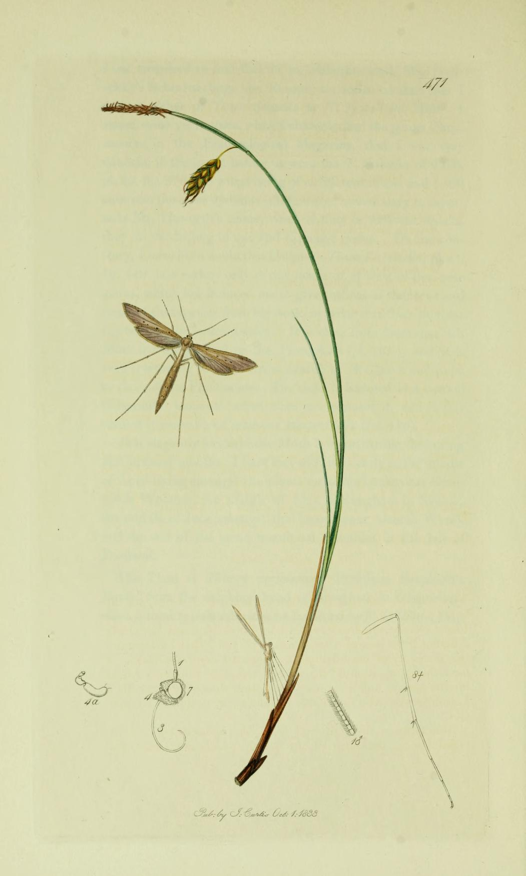 An illustration from British Entomology by John Curtis. Lepidoptera: Adactylus bennetii or Agdistis staticis (Sea-side Plume).